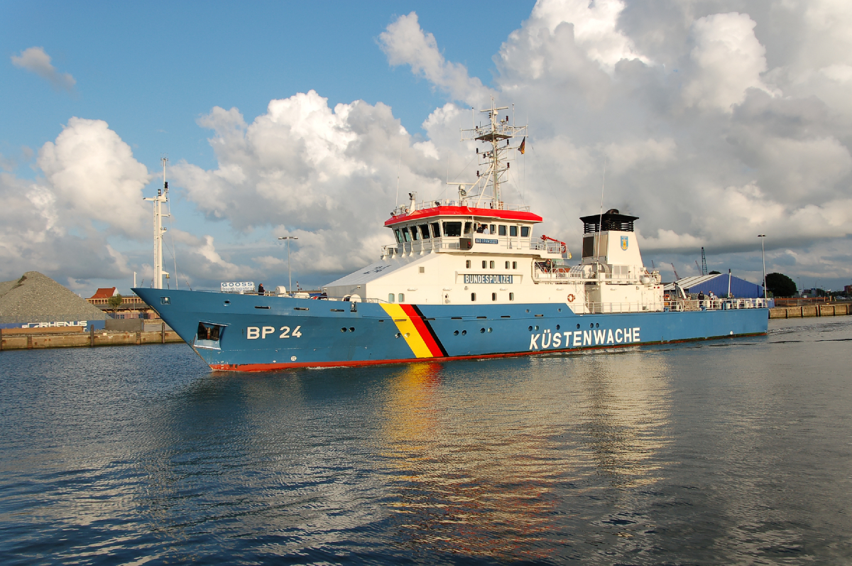 Pictures